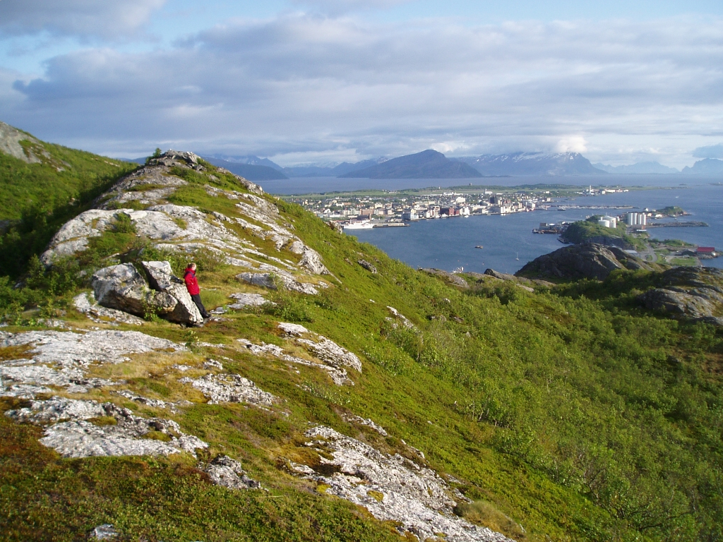 Bodø